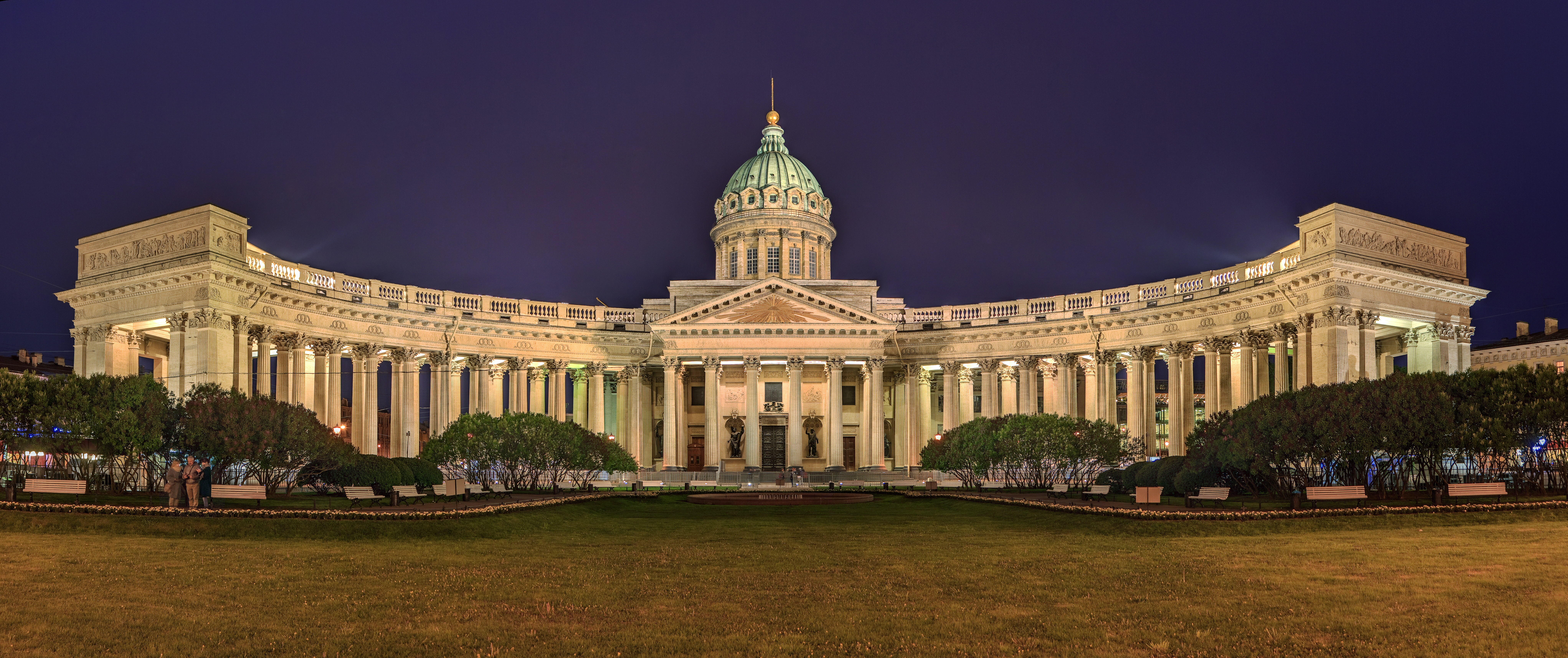 Cathedral of Our Lady of Kazan in Saint Petersburg, Russia